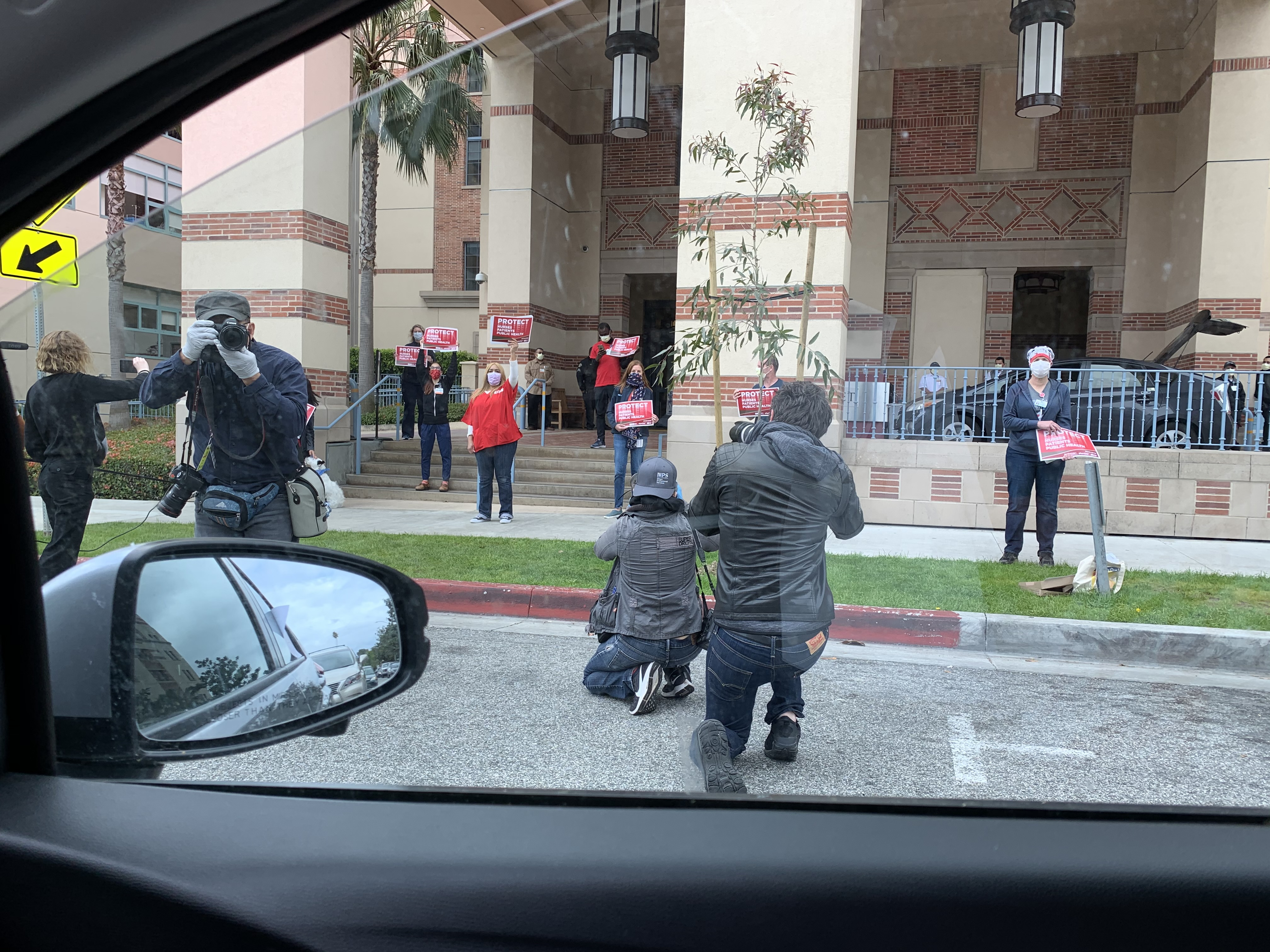 April 13, 2020. Outside UCLA Medical Center, Santa Monica. NNU Nurses Protest Lack of N-95 Masks & other protective equipment. Cropped version at File:NNU Protest UCLA Medical Center (crop).png